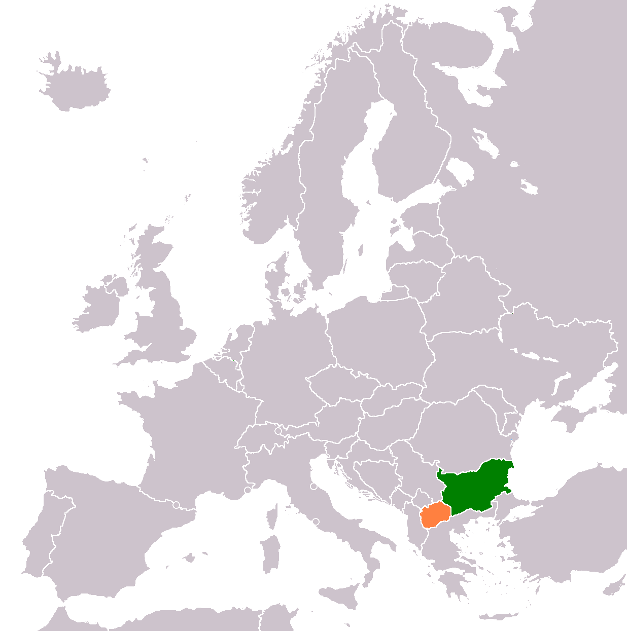 Bulgaria Macedonia Locator